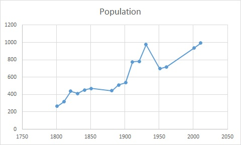 Total population of the civil parish of Worth in the county of Kent, between the years of 1801 and 2011.